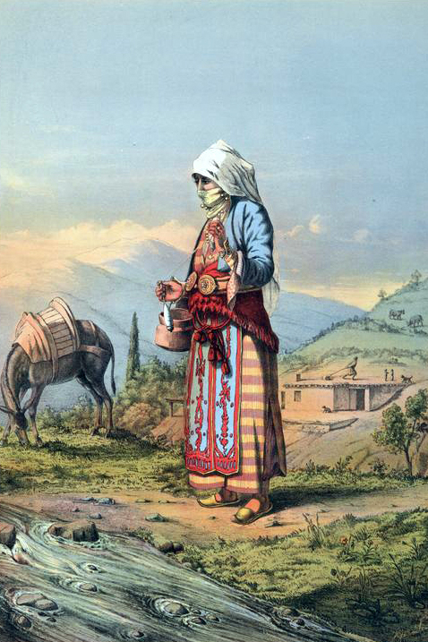 Armenian Peasant Woman. Size of the item: 44 × 32 cm (17.3 × 12.6 in)